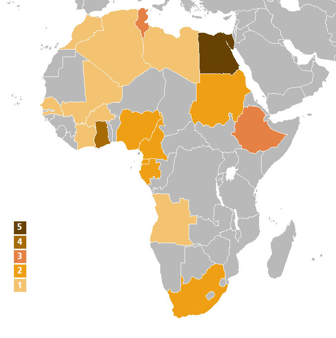 Egypt 1959, 1974, 1986, 2006, 2019 Ghana 1963, 1978, 2000* 2008 Etiopia 1962, 1968, 1976 Tunez 1965, 1994, 2004 Sudan, 1957, 1970 Nigeria 1980, 2000* Southafrica 1996, 2013 Gabon 2012* 2017 Guiena Ecautorial 2012* 2015 Camerún 1972 Libia 1982 Cote d’ivore 1984 Marruecos 1988 Argelia 1990 Senegal 1992 Burkina faso 1998 Mali 2002 Angola 2010